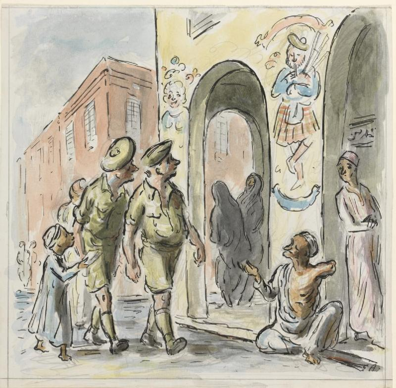 Troops in the Birka image: a street scene with arched entrances to a yellow arcade in the right foreground. At the foot of one of the columns a one armed beggar sits holding out his hand to two passing soldiers. To the left a small boy is trying to sell them postcards. Through one of the arches can be seen two black-robed Arab women. A mural of a kilted bagpipe-playing Scot is on the wall.